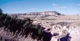 Robidoux Pass, a pass located near the community of Gering in Scotts Bluff County, Nebraska, United States. It was a major route on the Oregon Trail from 1848 to 1851. It was designated a National Historic Landmark on 20 January 1961.